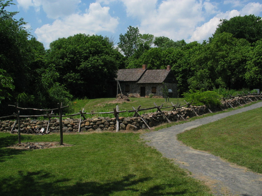 Landscape at Richmondtown neighborhood,Such landscapes are across the Historical Richmond Town.